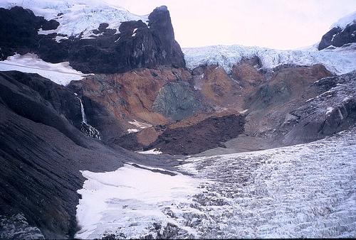 Icefalls and recently extruded volcanic rock on the Kingcome Glacier, Silverthrone/Ha-Iltzuk Icefield, Coast Mountains, British Columbia.